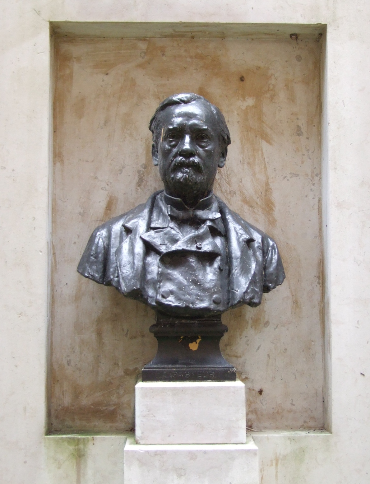 Dole, Jura, FRANCE